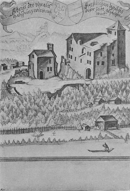 Oldest known near-realistic depiction of Habsburg castle in the canton of Aargau in Switzerland